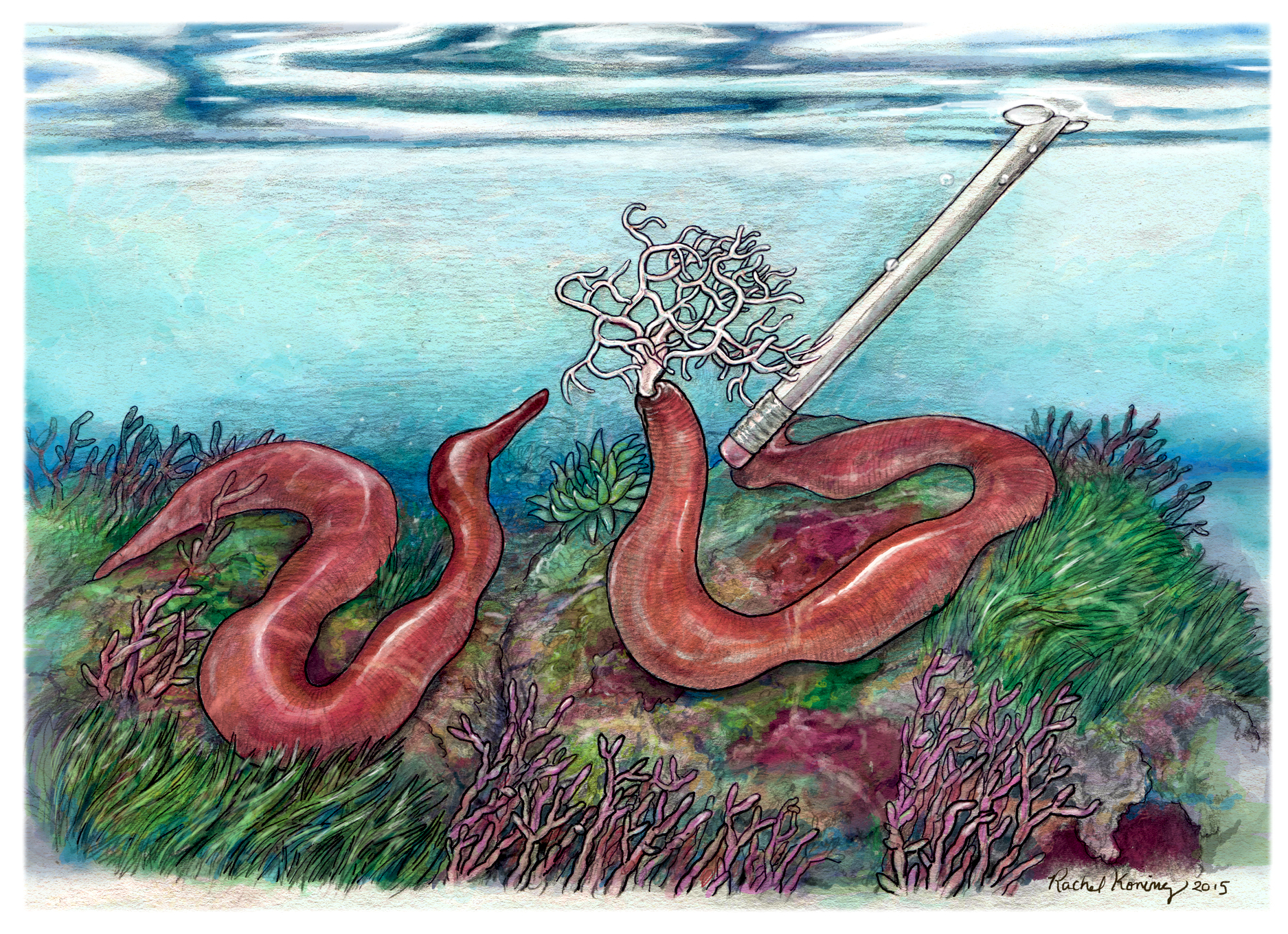 Gorgonorhynchus repens discharges sticky proboscis in response to a perceived threat